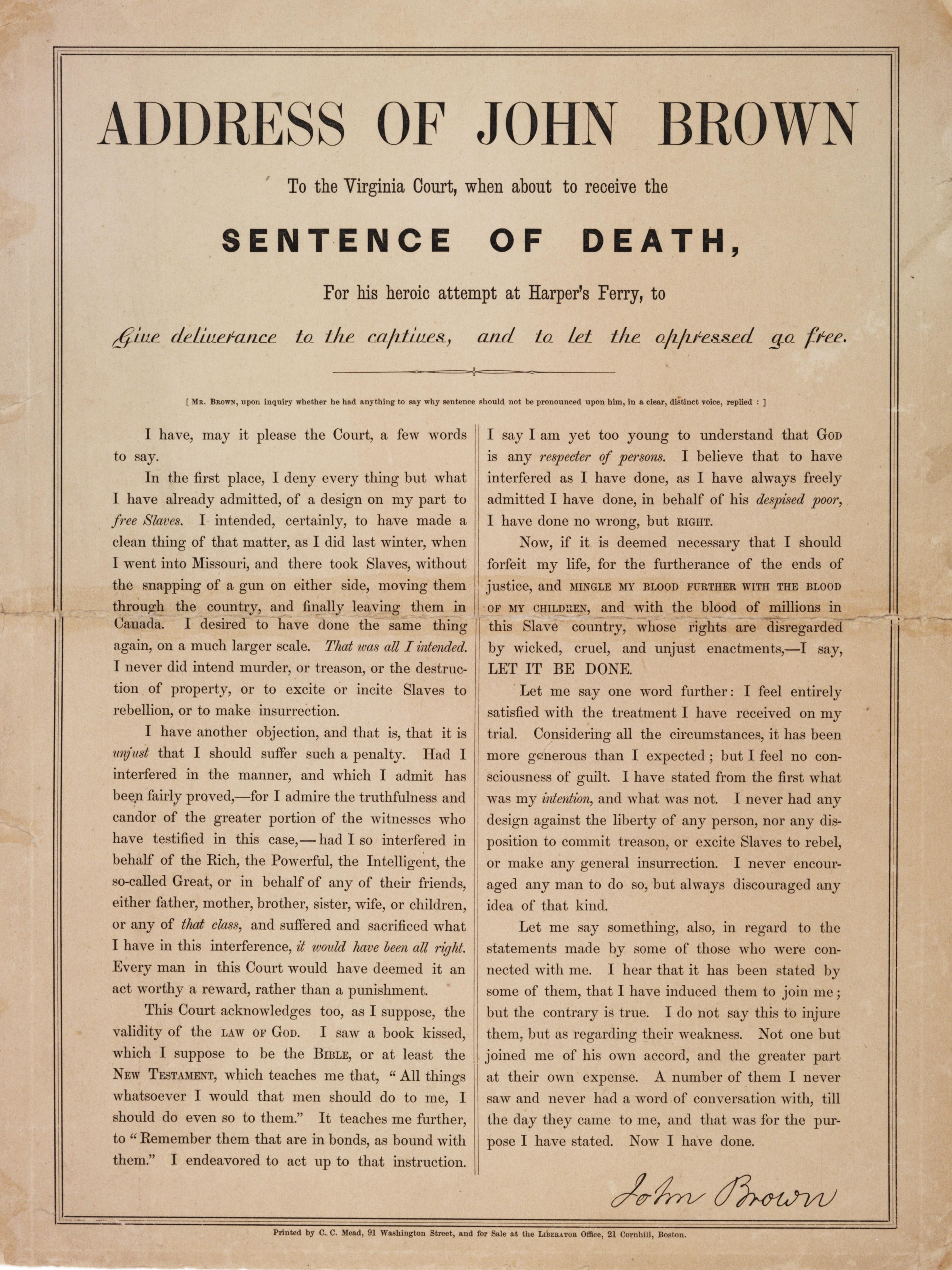 Abolitionist John Brown, about to be sentenced to death in 1859, addresses the court. Broadside sold at "The Liberator", Wm. Lloyd Garrison's newspaper